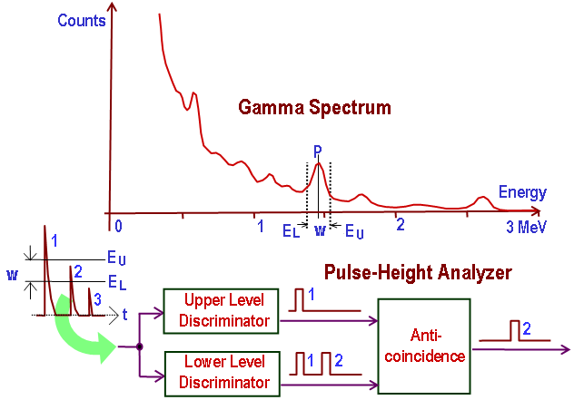 Gamma Pulse-Height Analyzer Principal